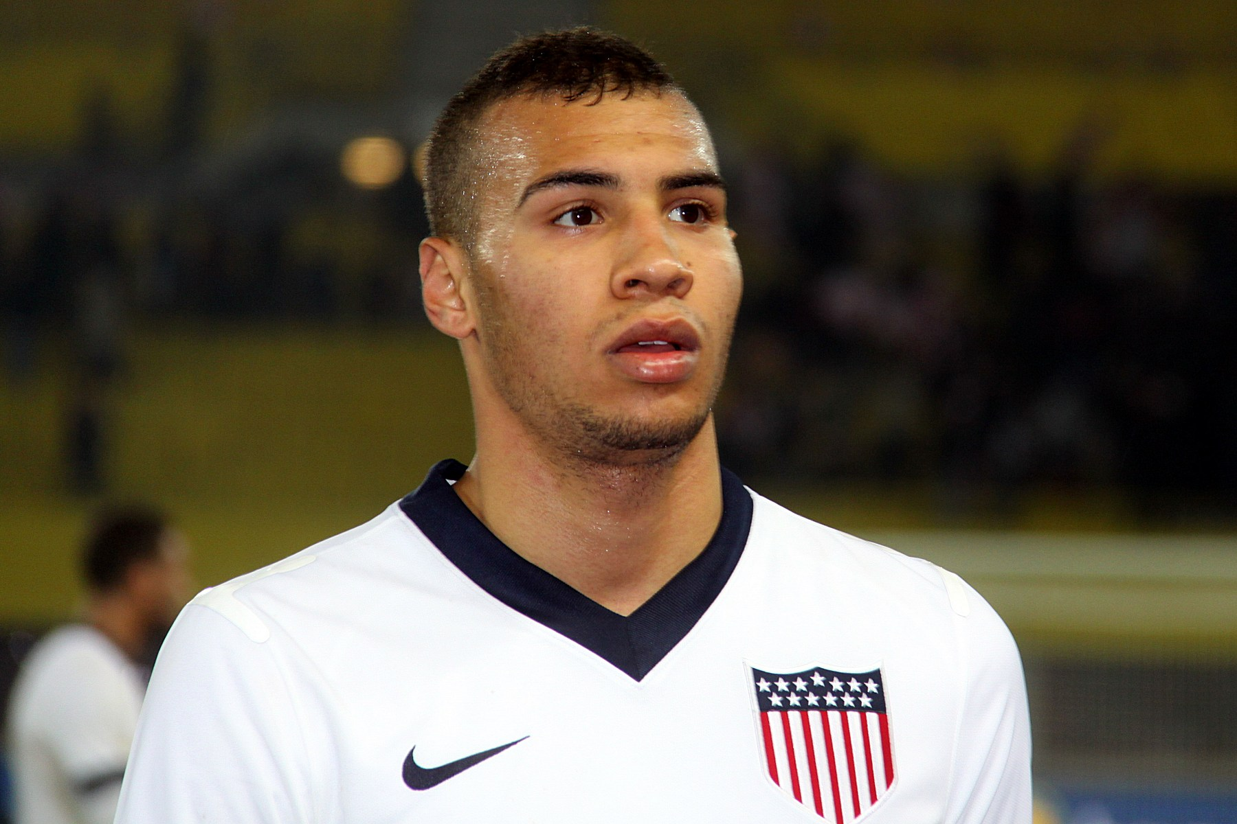 Friendly-match Austria vs. USA (1:0) in the Ernst-Happel-Stadion in Vienna at 2013-03-22. – The photo shows John Anthony Brooks (USA).